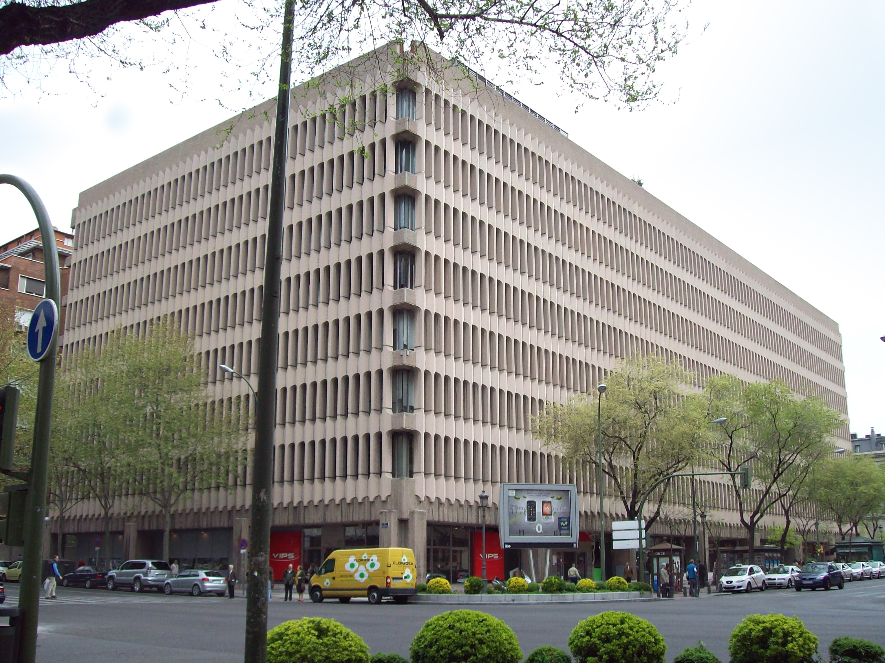 Façade of Edificio Beatriz, an office building at 84 Calle de Velázquez (street) in Salamanca district in Madrid (Spain). It was projected in 1968 by Eleuterio Población Knappe and built between 1968 and 1976.